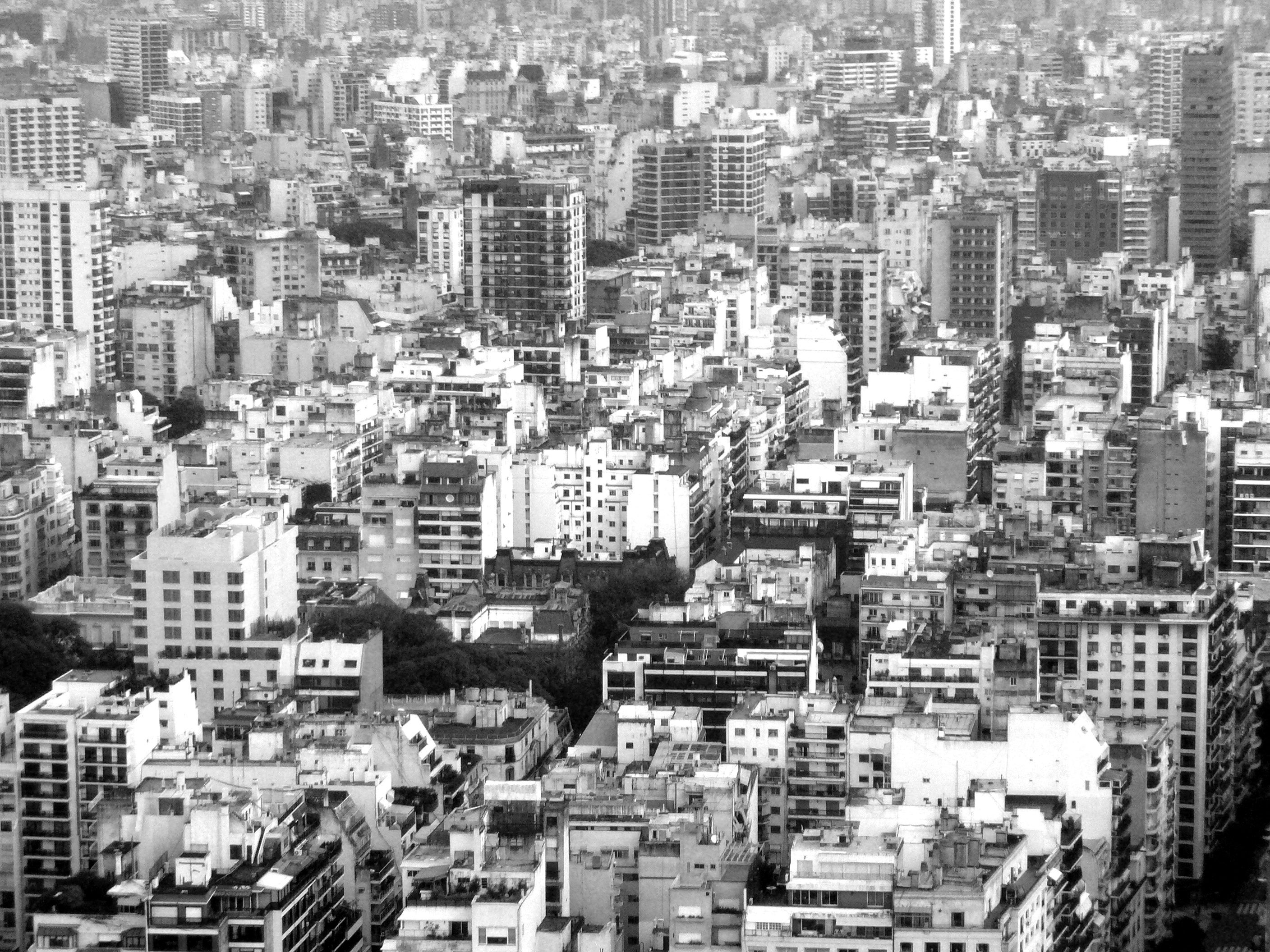 Aerial view of the Barrio Norte section of Buenos Aires. Callao Avenue is visible at right.